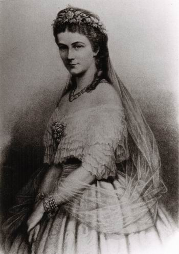 Princess Sophie Charlotte in Bavaria, 1847–1897, younger sister of Elisabeth ELisabeth Empress consort of Austria, Queen consort of Hungary. (Daughter of Prince Maximilian Joseph in Bavaria).